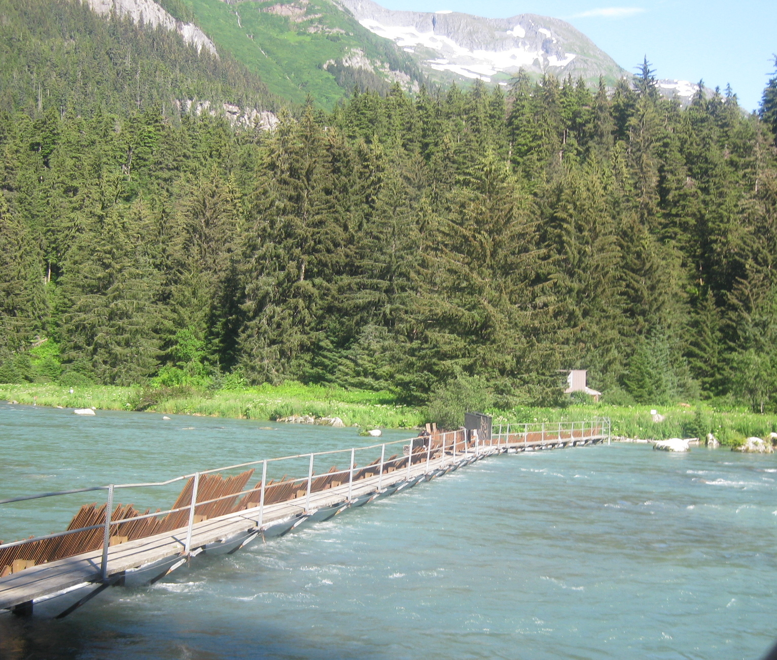 A Weir across Chilkoot River for counting Sockeye Salmon